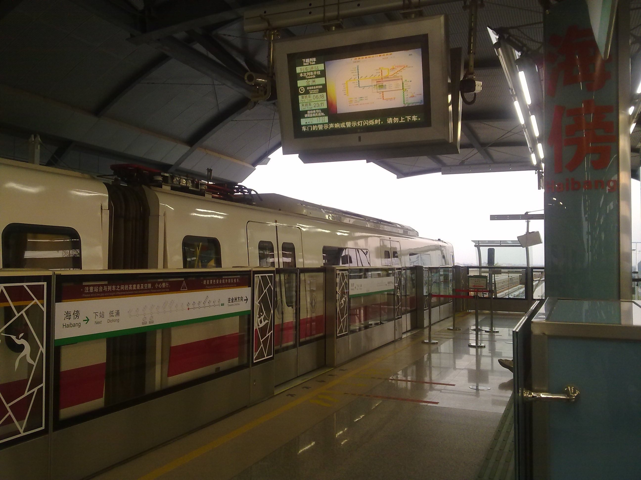 Guangzhou Metro Haibang Station platform